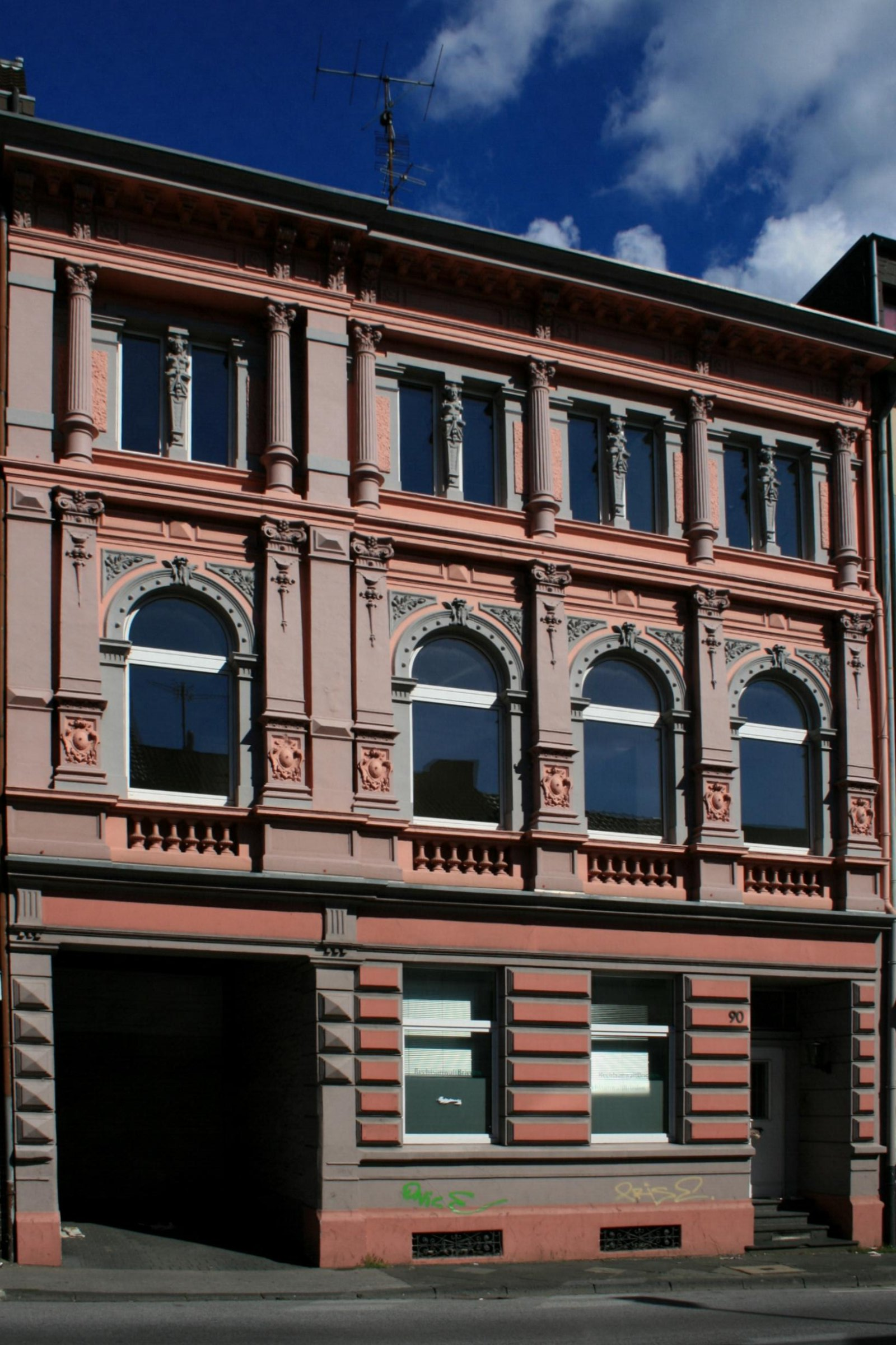 Cultural heritage monument No. F 013 in Mönchengladbach